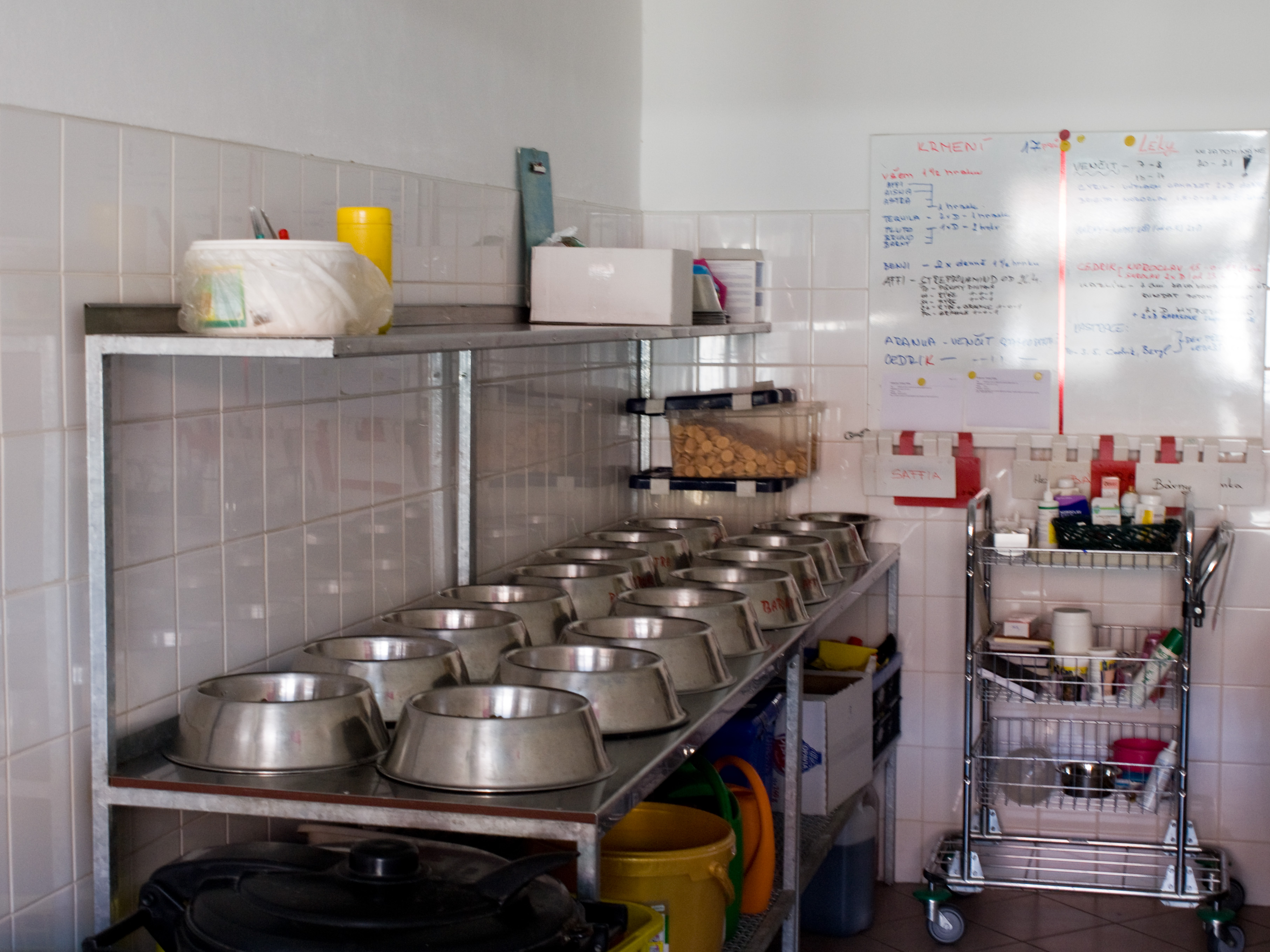 Feeding place, Czech guide dog school Klikatá, Prague 5